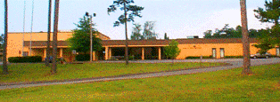 Photo of York Institute, Jamestown, Tennessee